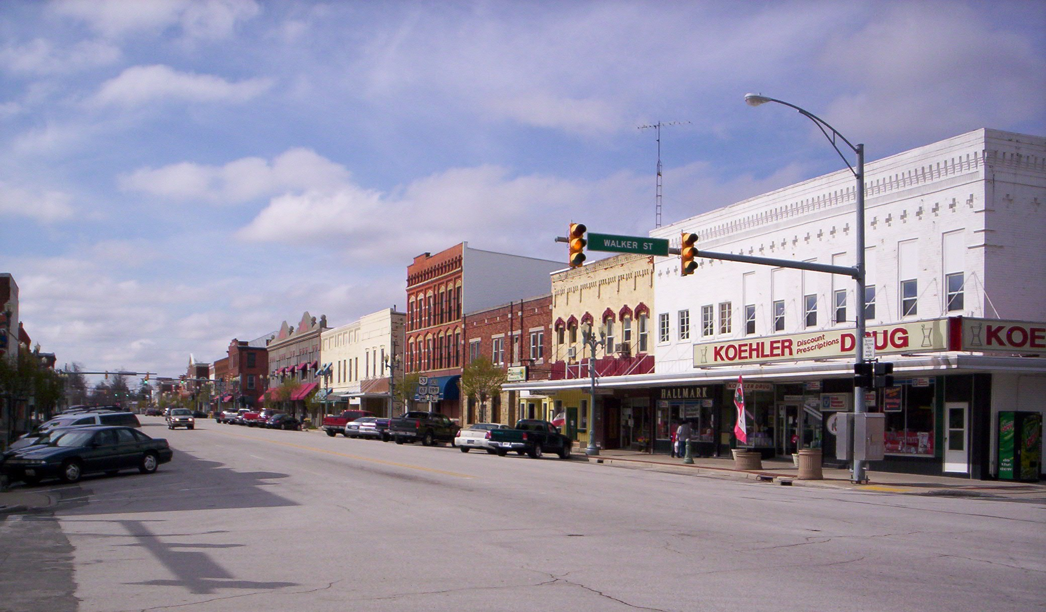 A view of downtown Upper Sandusky, Ohio on North Sandusky Avenue.